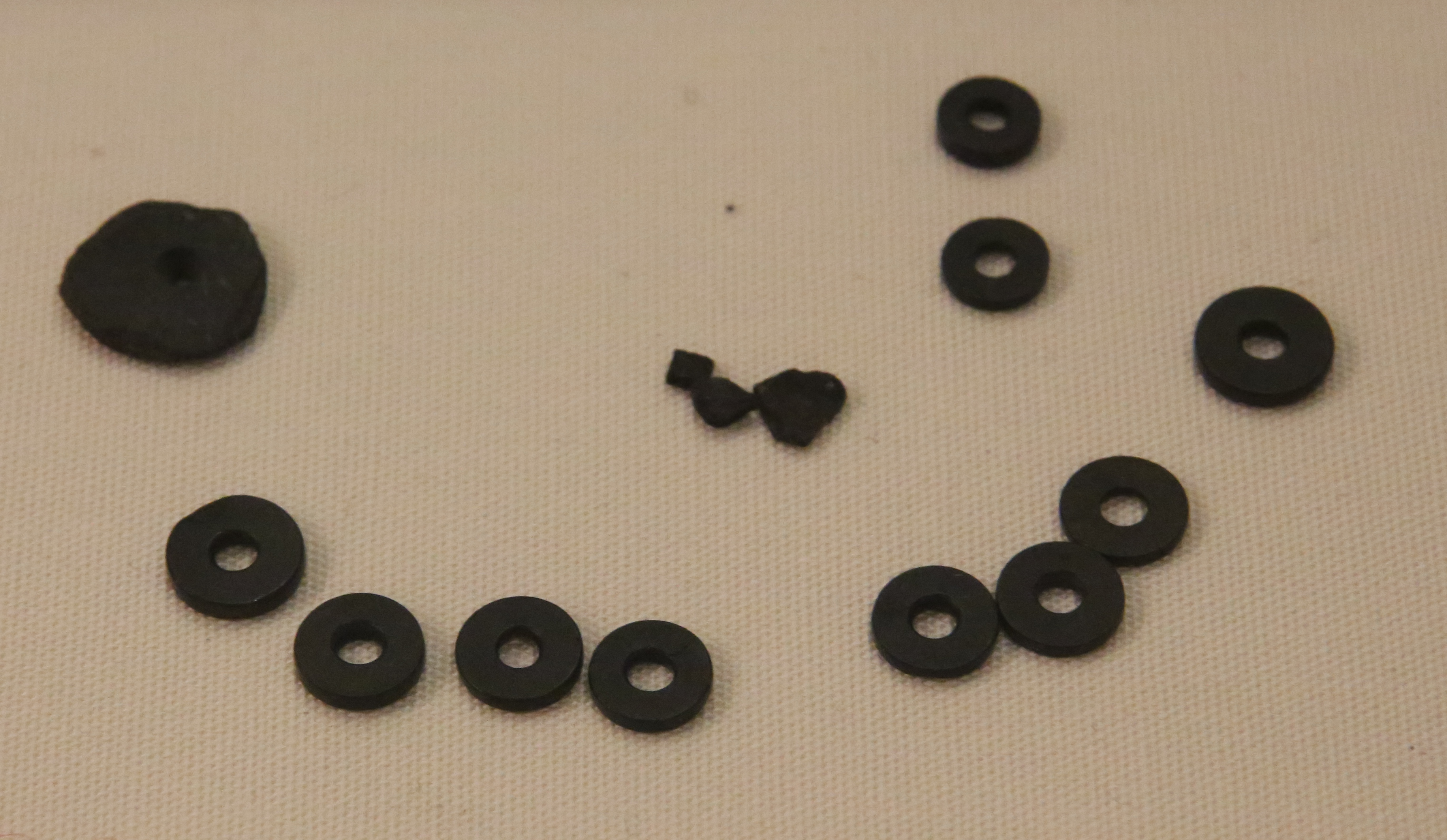 beads of Cannel coal on display in Inverness Museum and Art Gallery